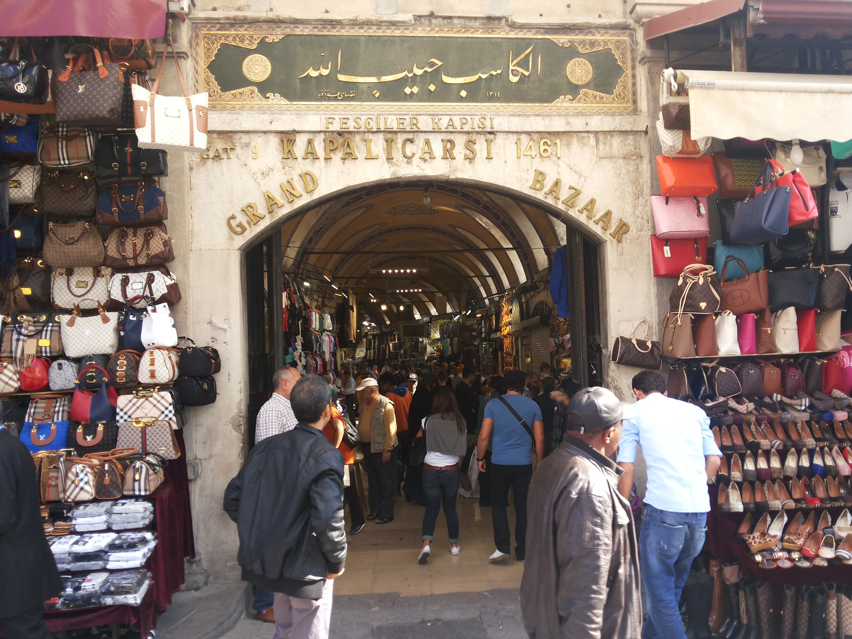 Grand Bazar, Istanbul, Turkey